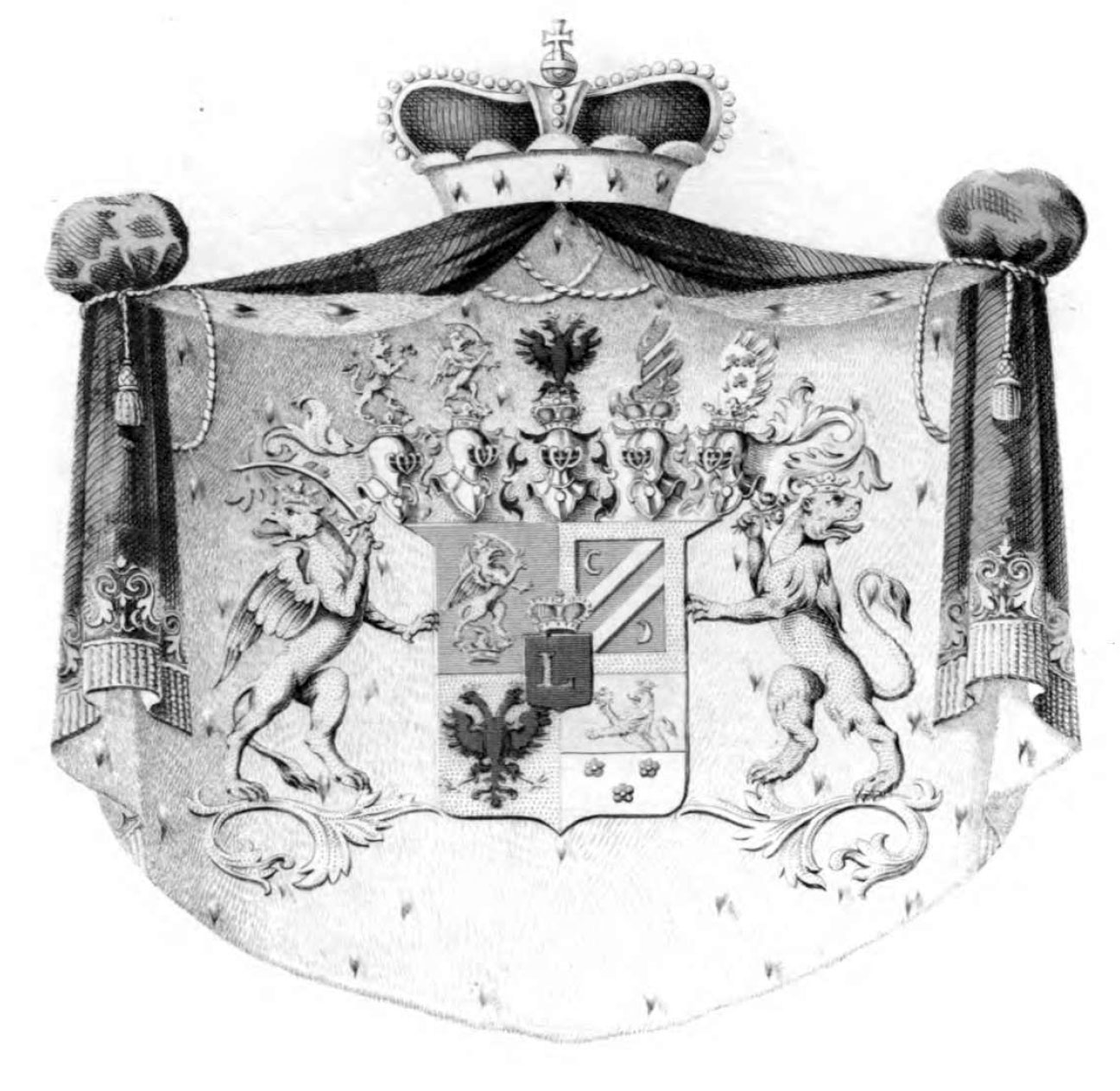 Esterhazy coat of arms